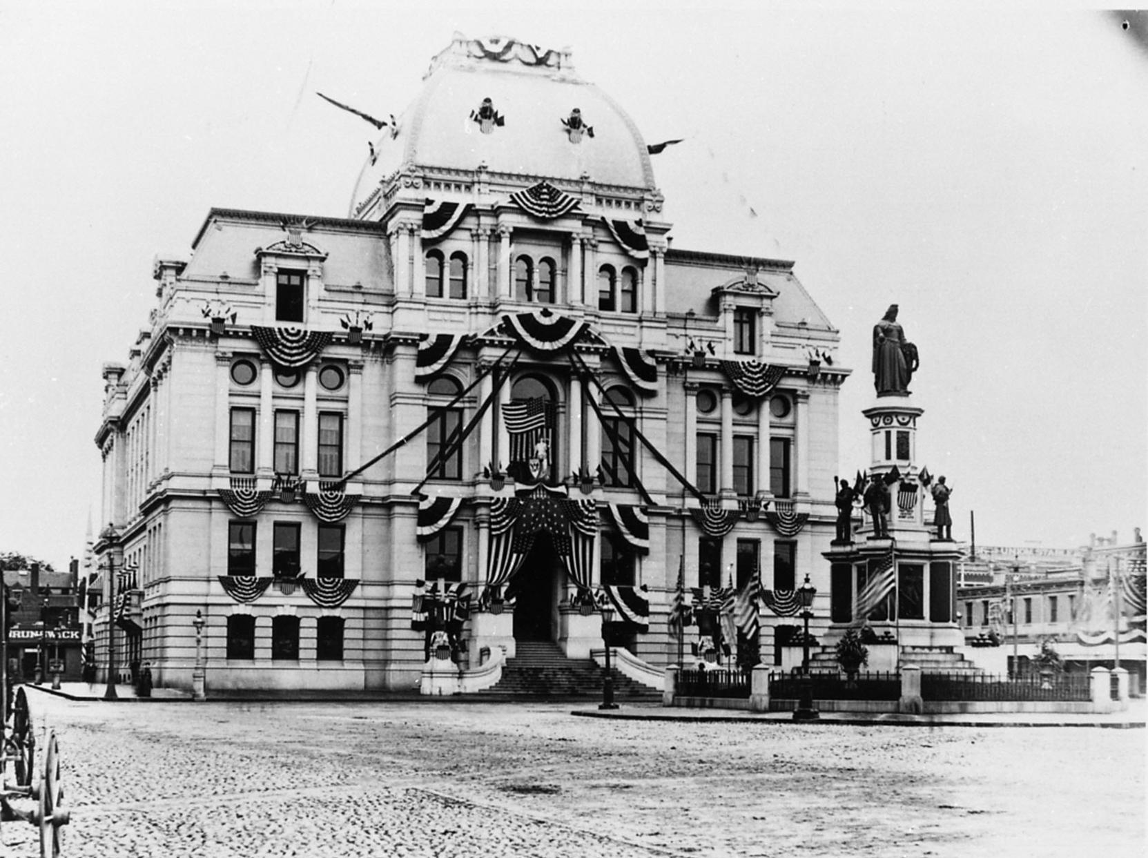 Providence City Hall is decorated for the wake and funeral of Providence Mayor Thomas A. Doyle in June, 1886.